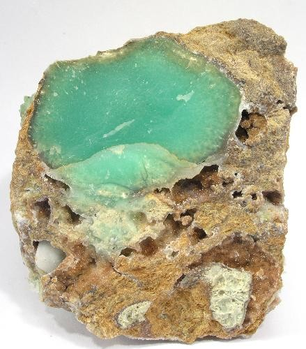 Variscite Locality: Little Green Monster Variscite Mine, Clay Canyon, Fairfield, Oquirrh Mts, Utah County, Utah, USA (Locality at ) Size: 6 x 5.1 x 4 cm. A Variscite nodule in matrix, 3.9 cm across. The color is superb and there are even numerous drusy nodules in many smaller pockets. Ex. Charlie Key Collection.